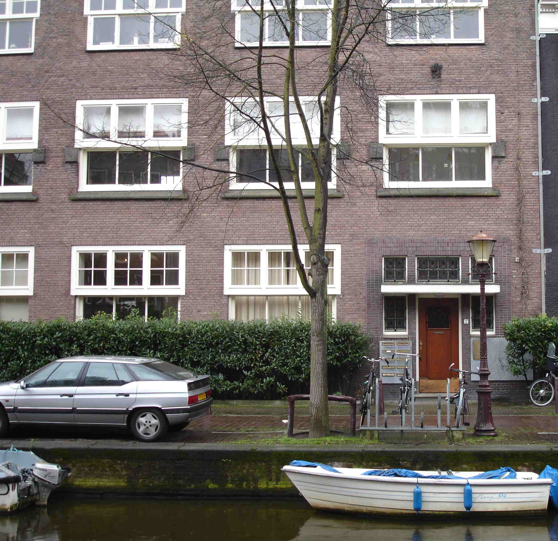 Block of flats in Amsterdam